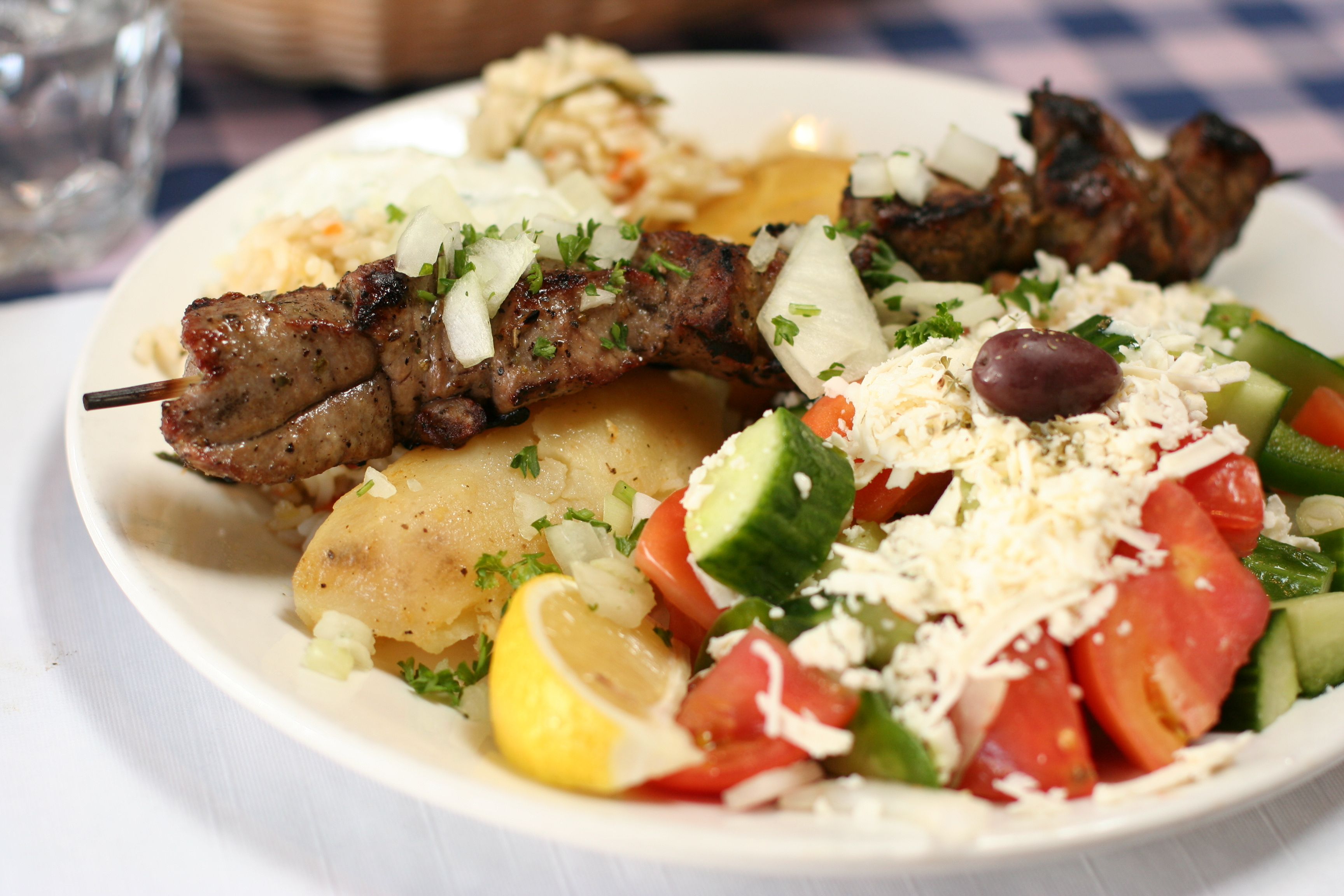 Lamb souvlaki with rice, potatoes, greek salad, feta, & lemon